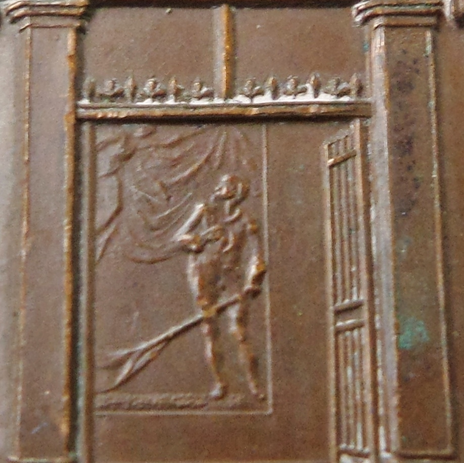 A medallion celebrating the centenary of the death of Robert Burns. The image of Coila in the Burns Mausoleum has been highlighted.